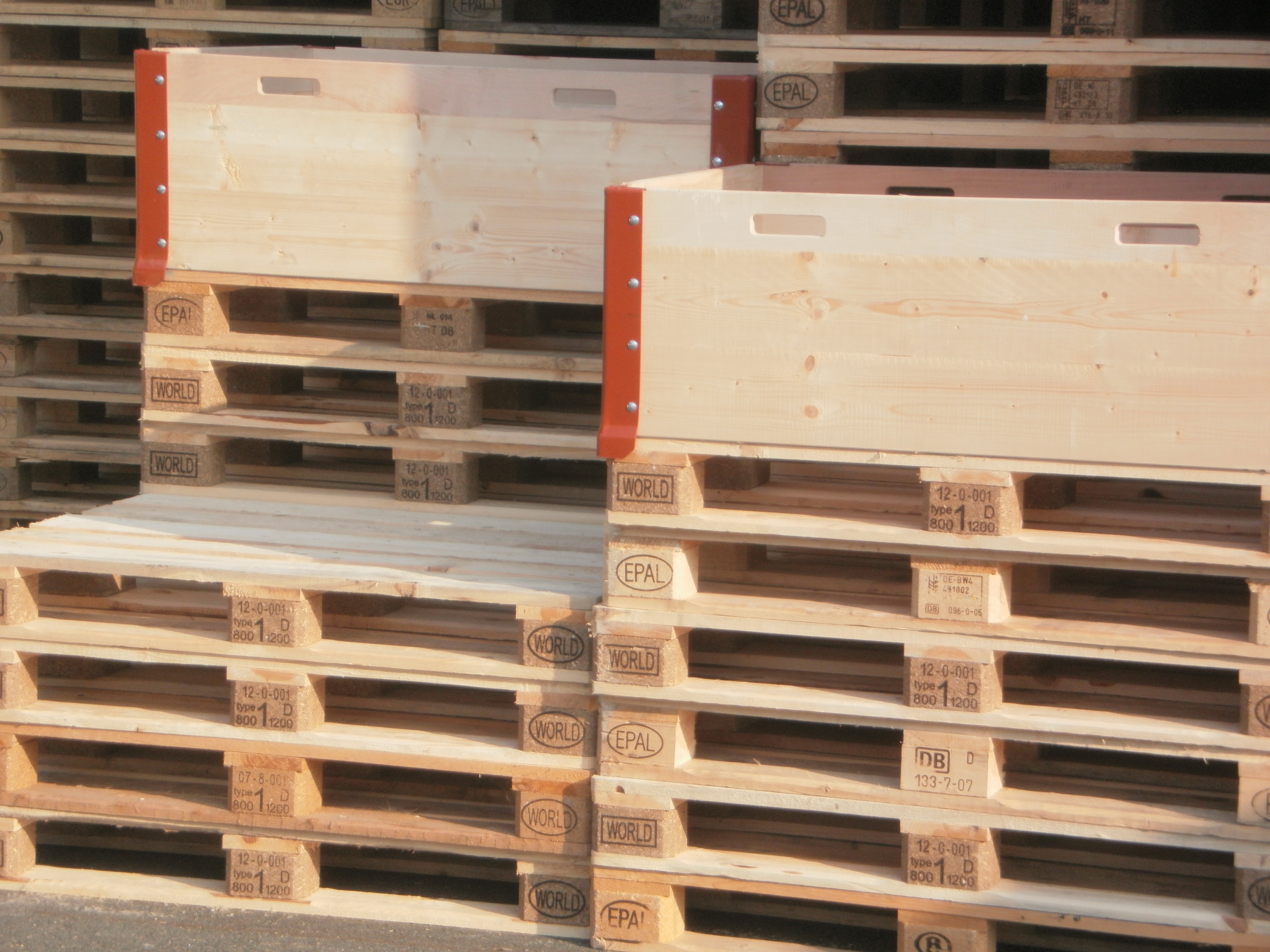 used pallets